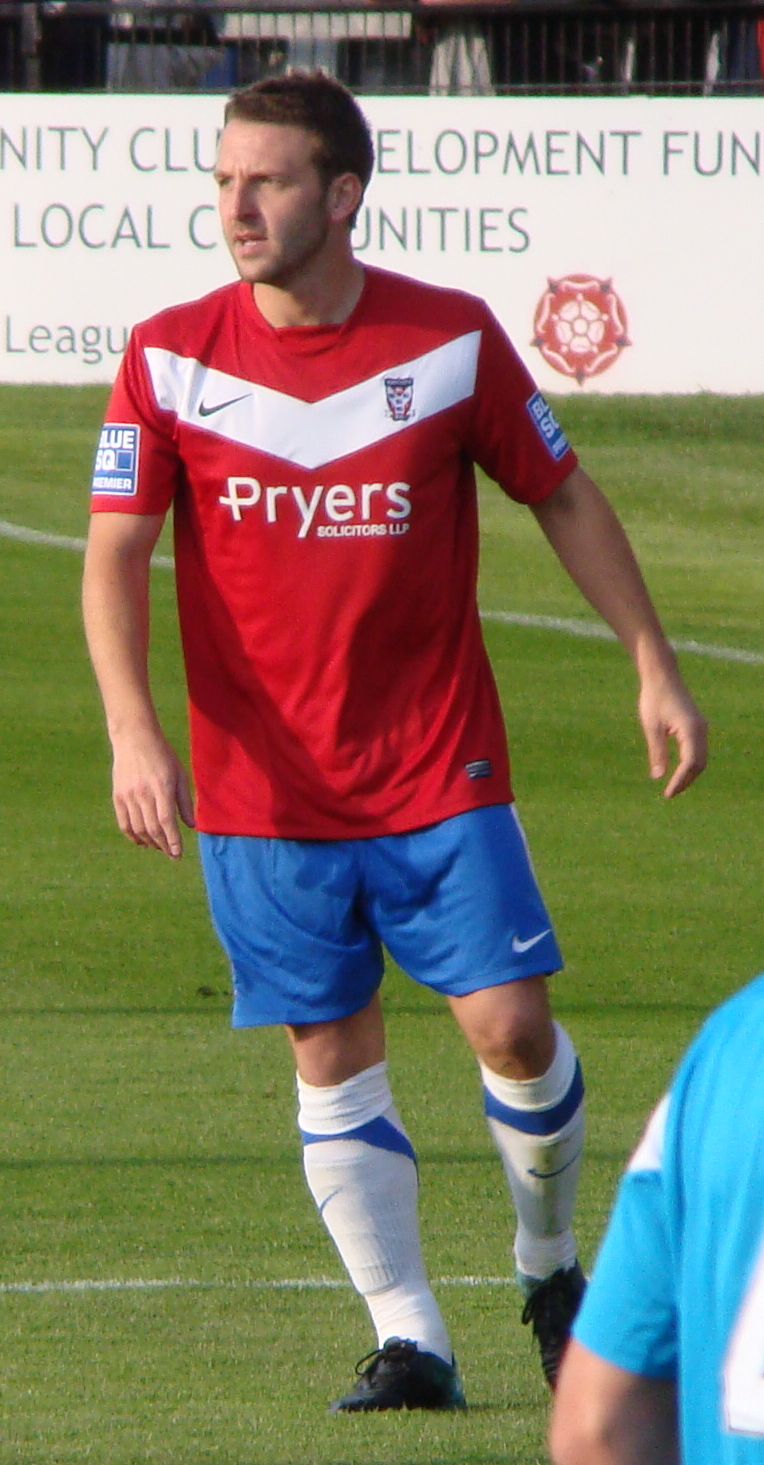 Scott Kerr. Image cropped from original at flickr.